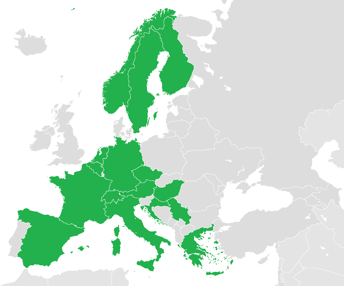 European Championships in Athletics host countries.